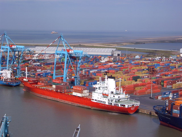 Royal Seaforth Container Terminal Shipping at the port of Liverpool container terminal.